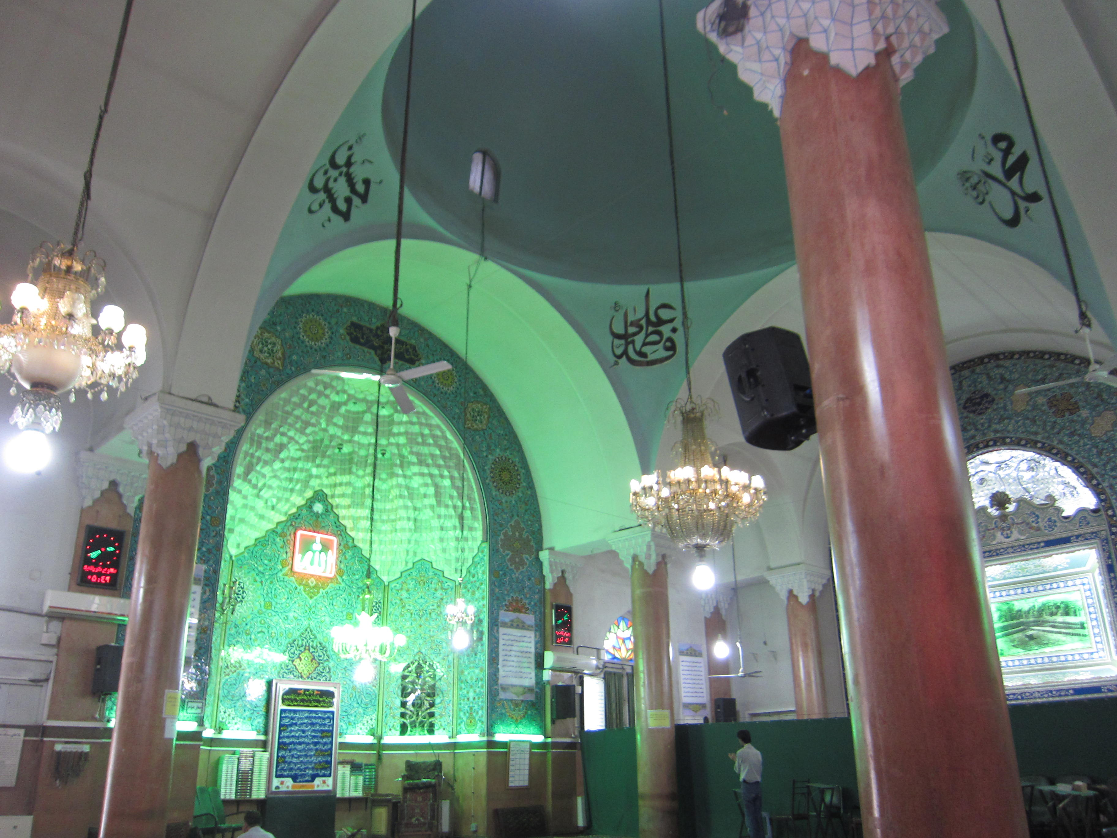 Fakhr al-Dawla mosque, Tehran